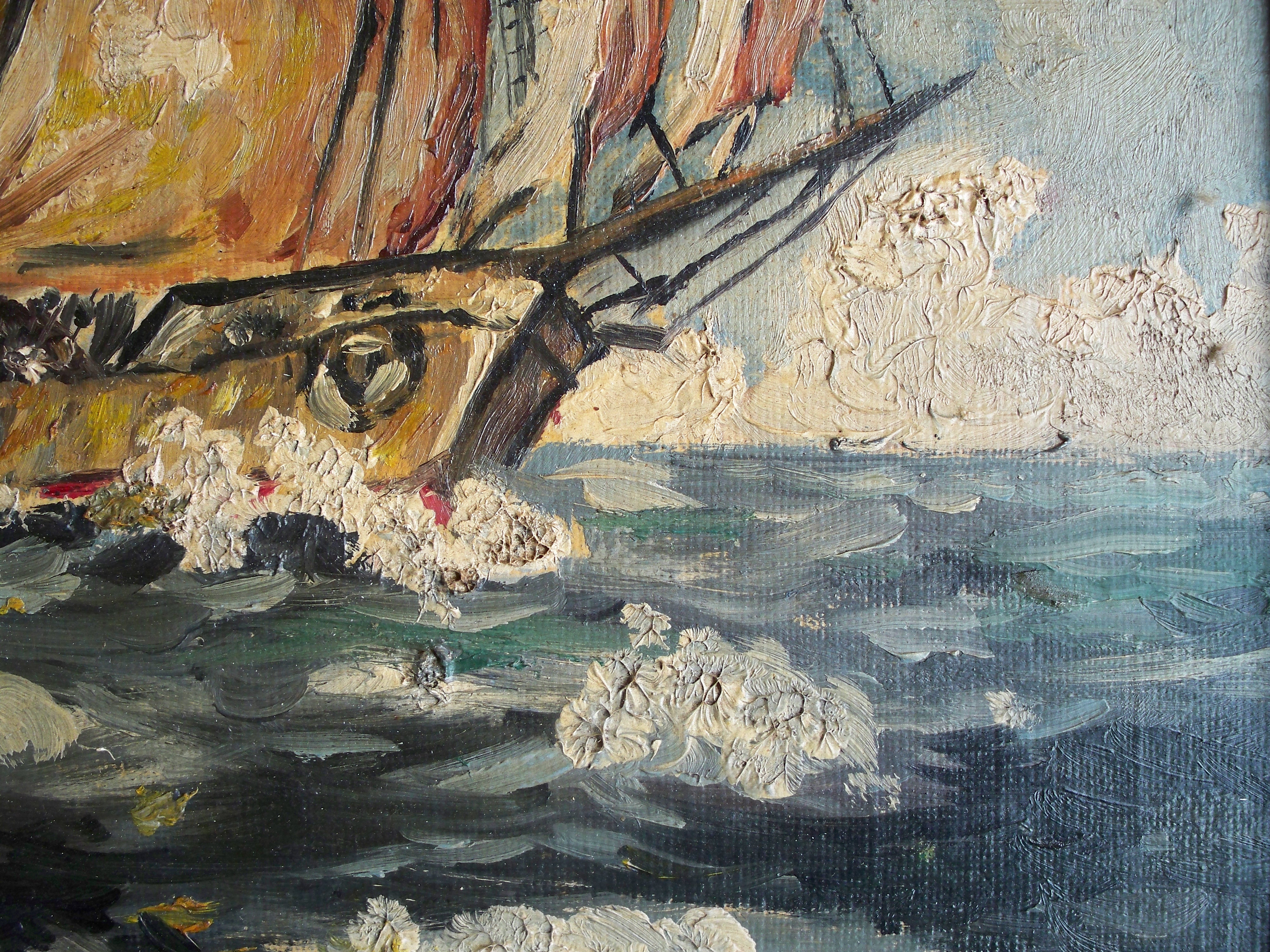 Impasto-detailed, own work (photo AND painting)by Roman Michalowski (Behemot53)